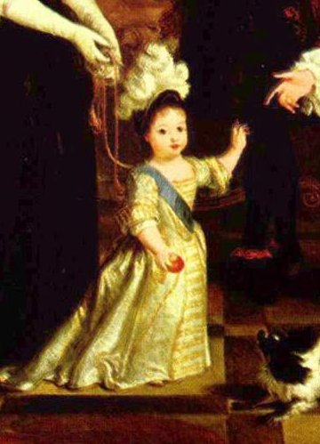 Louis XV of France. Enlargement of detail from portrait of Louis XIV and heirs